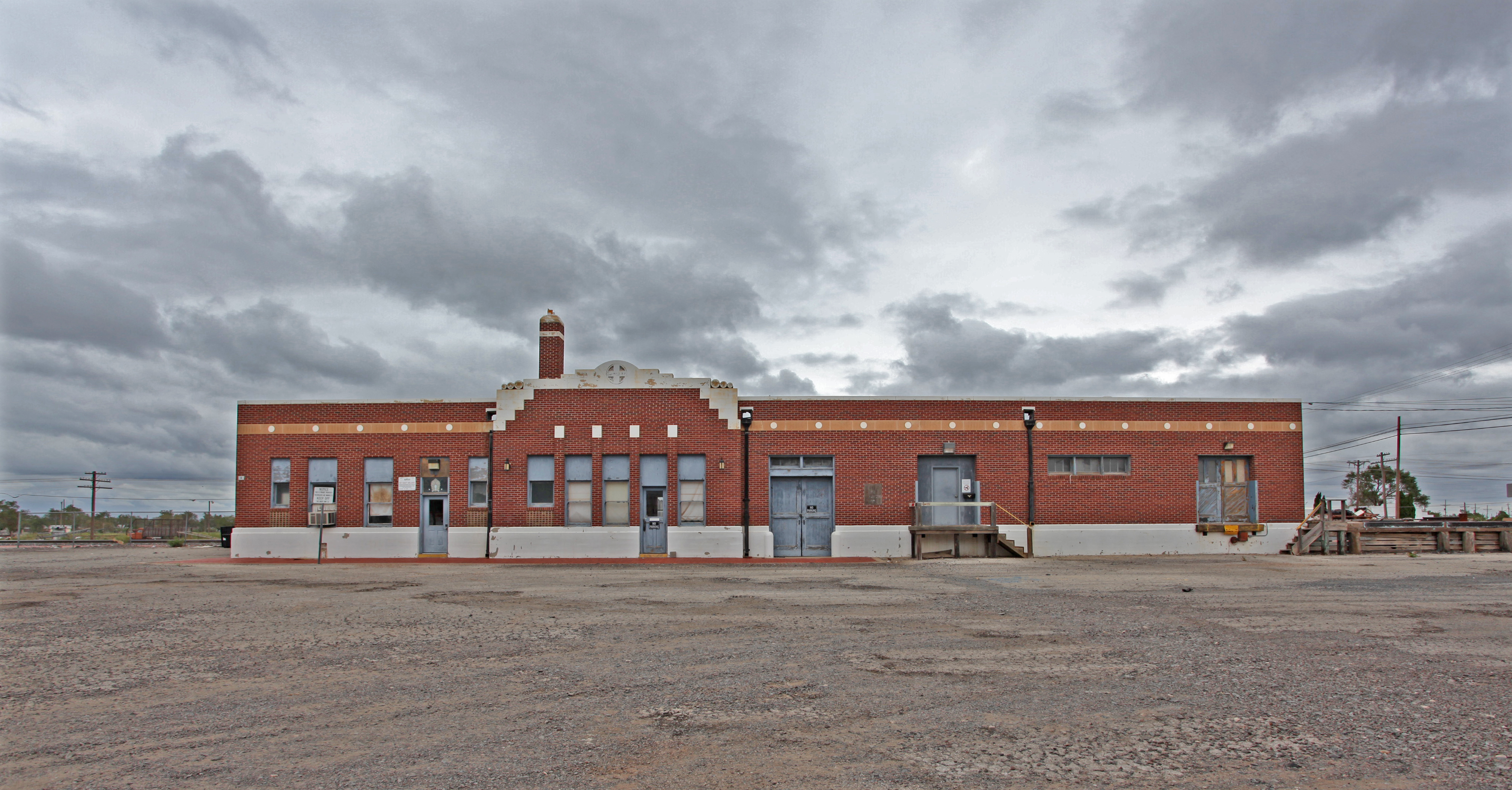 Littlefield became a stop on the Panhandle and Santa Fe Railway in 1913. Passenger rail service is no longer an option on the high plains of the Llano Estacado. This lonely train station now sits abandoned by the tracks where freight trains pass by daily, but never stop.